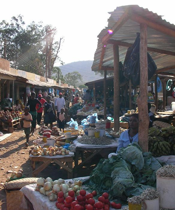 Looking west down a side street in Chipata, Zambia. The main street (Great East Road) runs north-south just behind the camera. Altimeter reading 1140 meters.